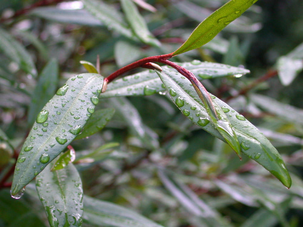 Nematolepis squamea: showing lanceolate shaped leaves and red colour of newly growing stems. Picture taken by Rob Wiltshire and uploaded with his permission.